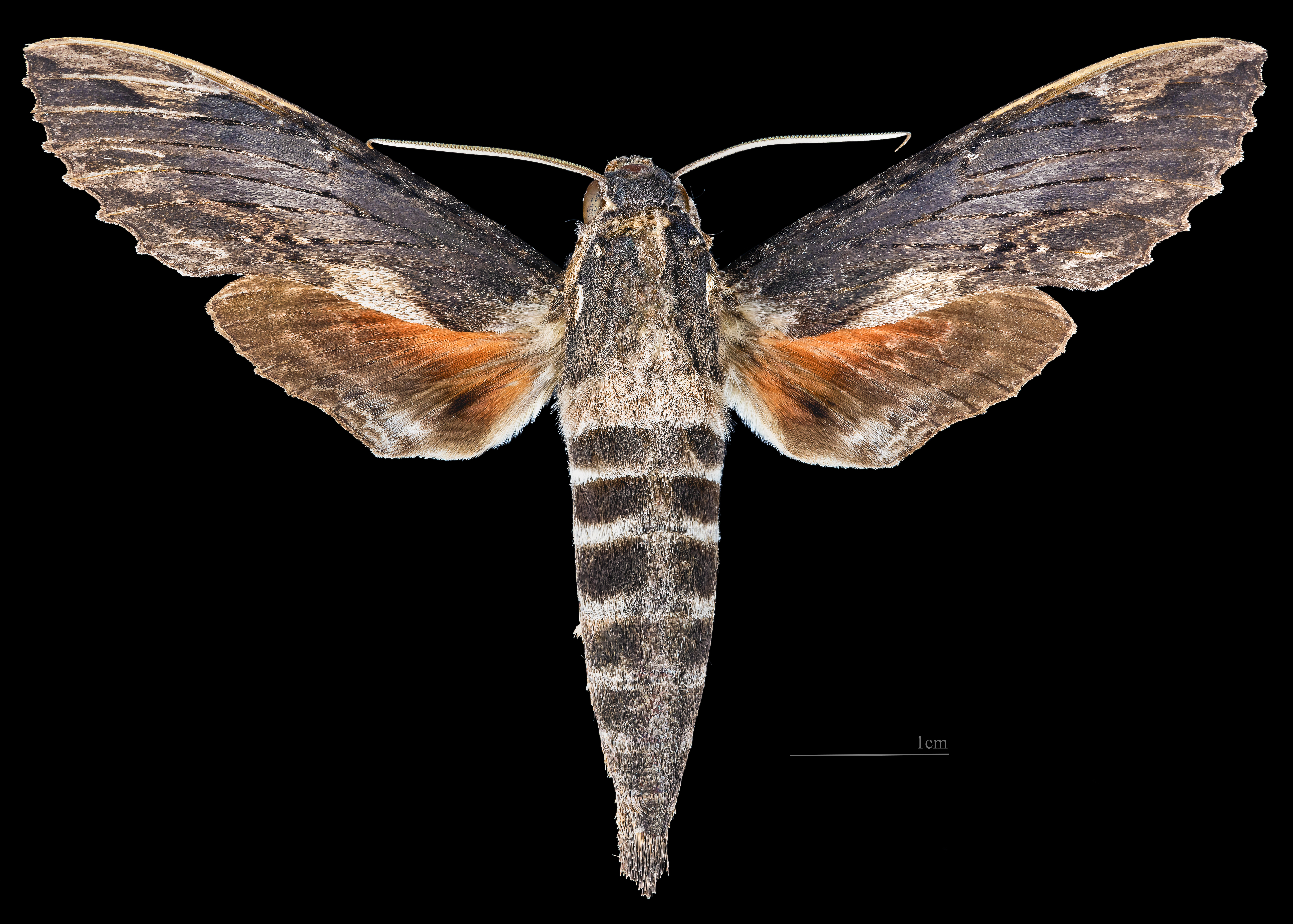 Erinnyis lassauxii - Dorsal side Collection of the Mathematician Laurent Schwartz